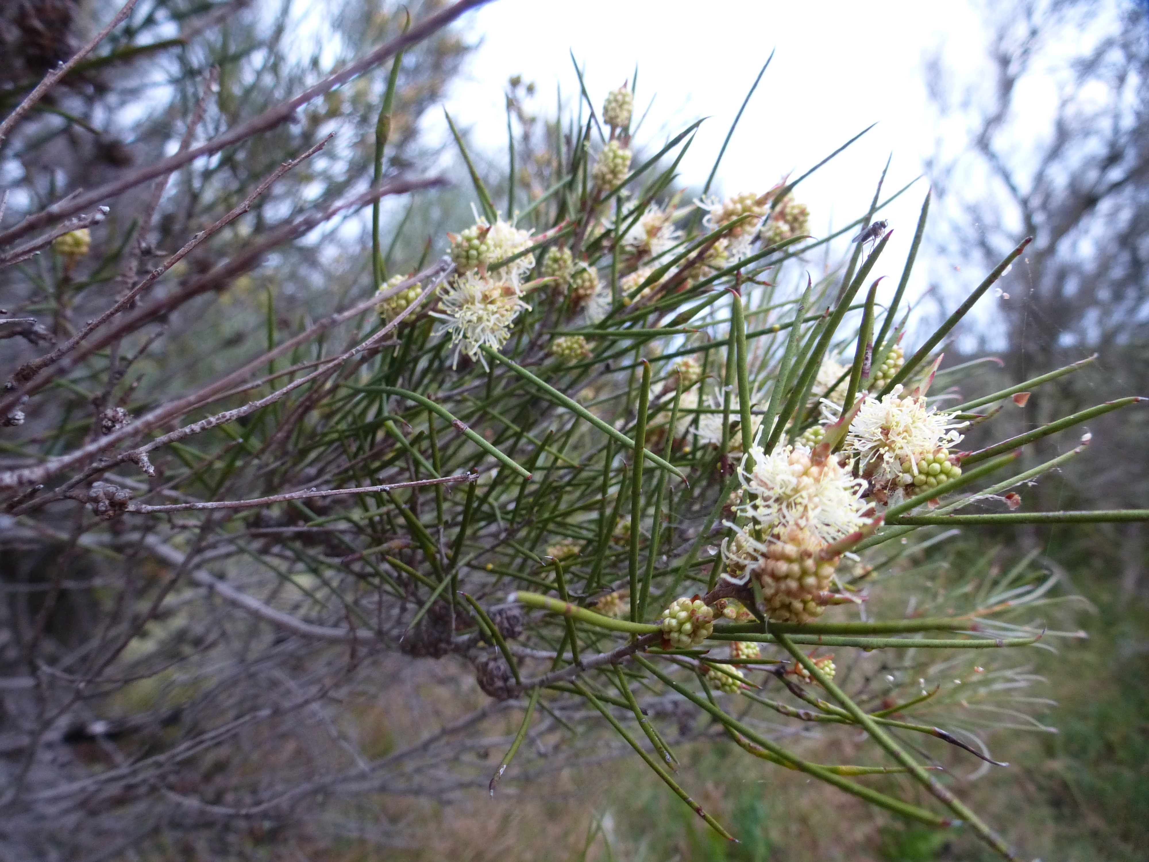 Melaleuca osullivani growing at the type location near Busselton